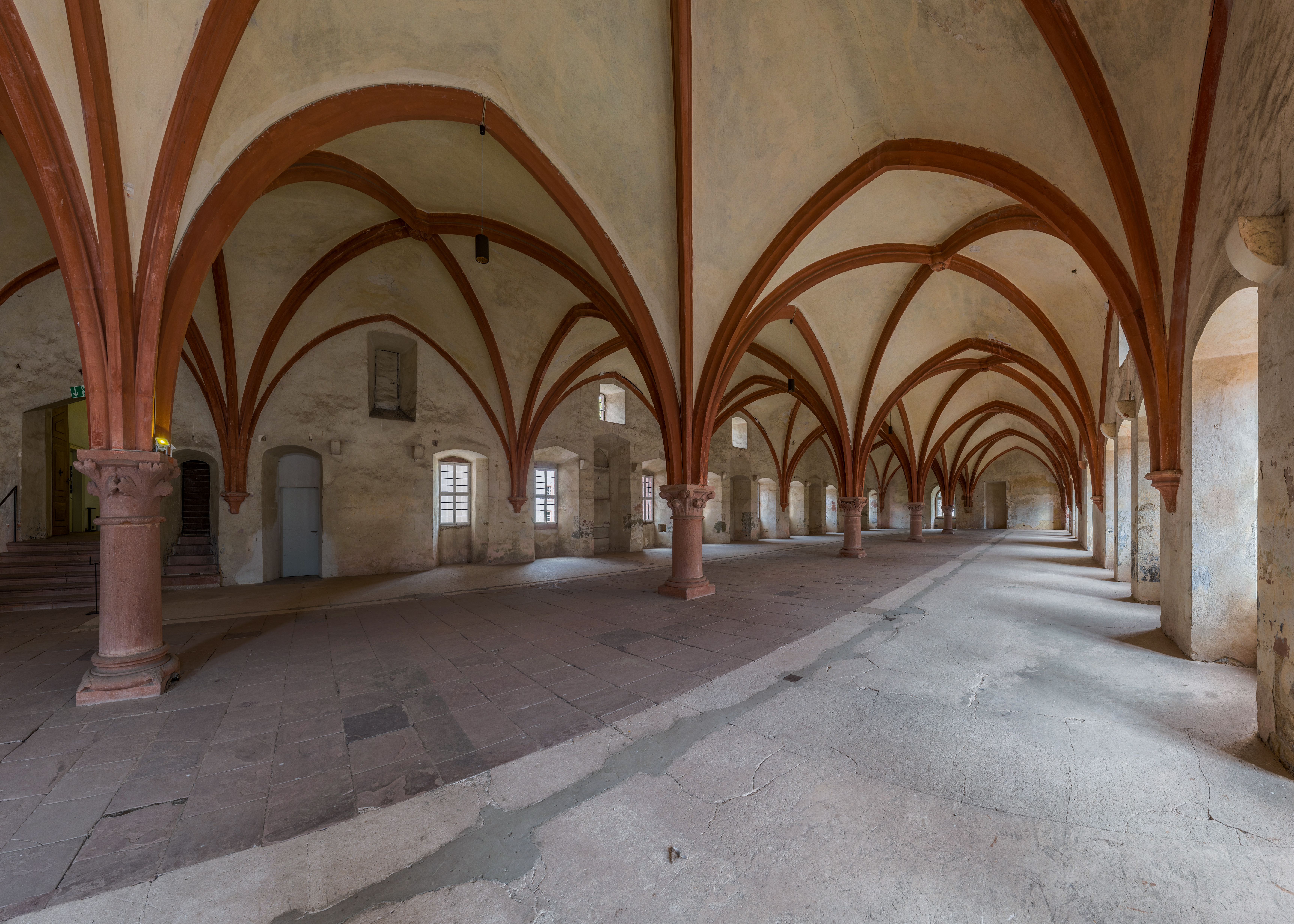 The monks' dormintory of Kloster Eberbach